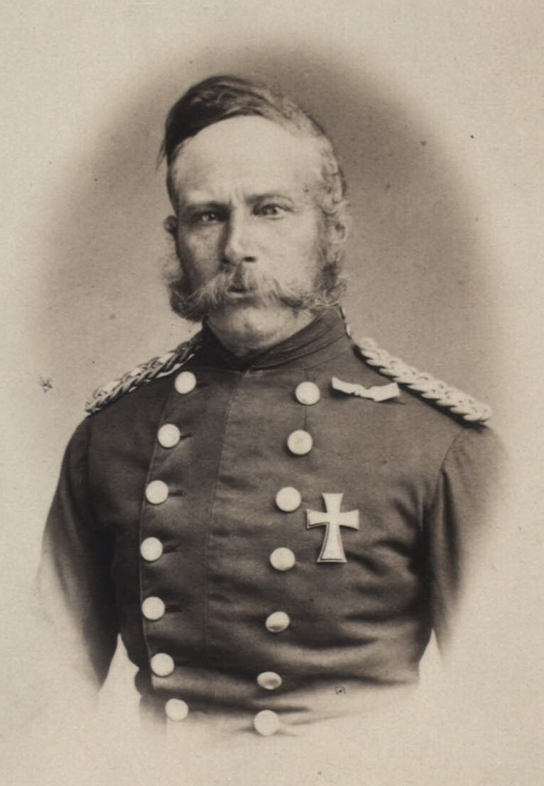 Carl Philip Friedemann Maximilian Müller, aka Max Müller (1808-1884), Danish Army General